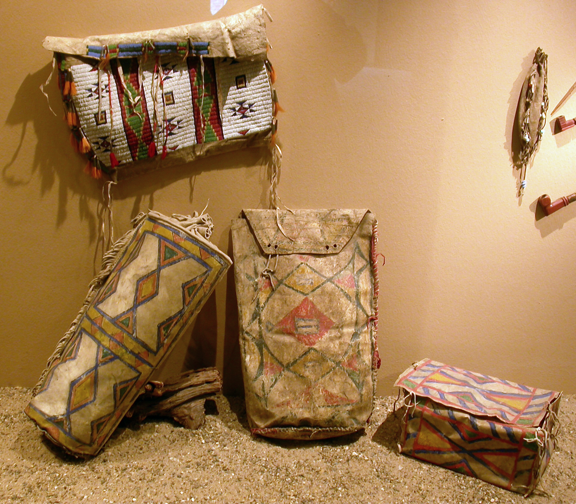 Westfälisches Museum für Naturkunde (Münster), Sioux parfleches and rawhide boxabove: lane-stitch beaded pounch by unknown artistbottom: left - rawhide bag for feathered headdress (1880), middle - tipi bag (1890), right - rawhide pouch, Plains